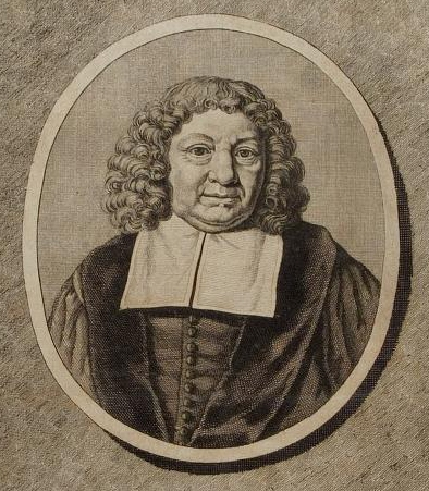 portrait (engraving) of Prof. Dr. Johannes de Raey (Joannes de Raei, Jean de Ray. (Wageningen, the Netherlands, 1622, - Amsterdam 1702) was a Dutch philosopher and an early cartesian.)